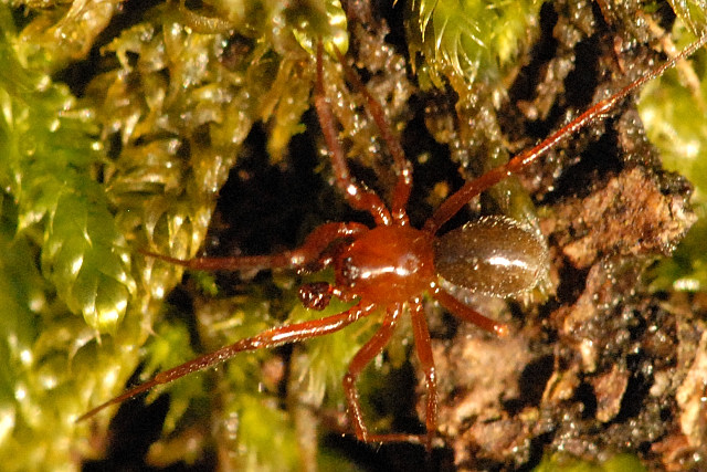 Gonatium rubens from Commanster, Belgian High Ardennes .